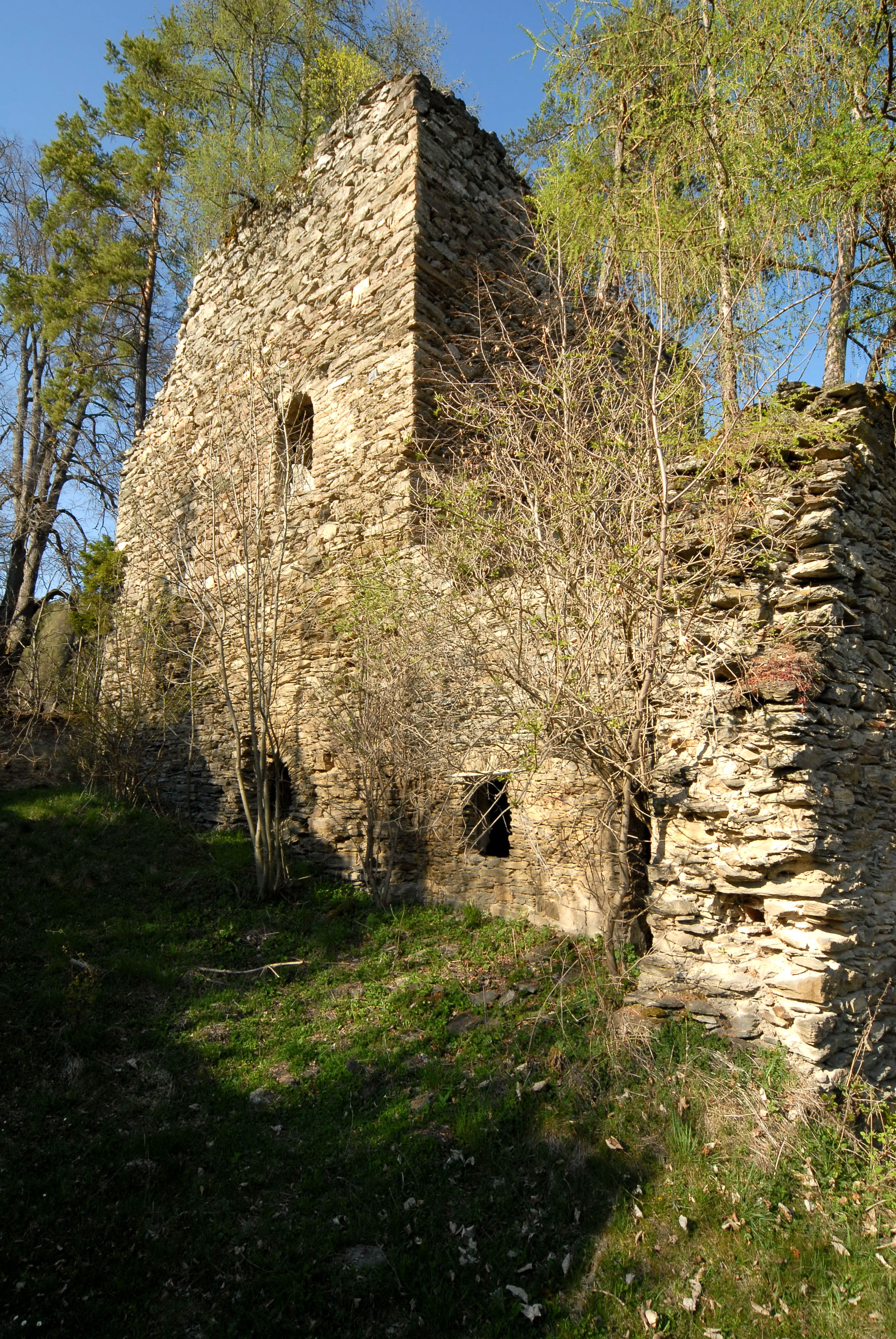 Keep of the castle ruin Gradenegg in Gradenegg, market town Liebenfels, district Sankt Veit an der Glan, Carinthia, Austria, EU